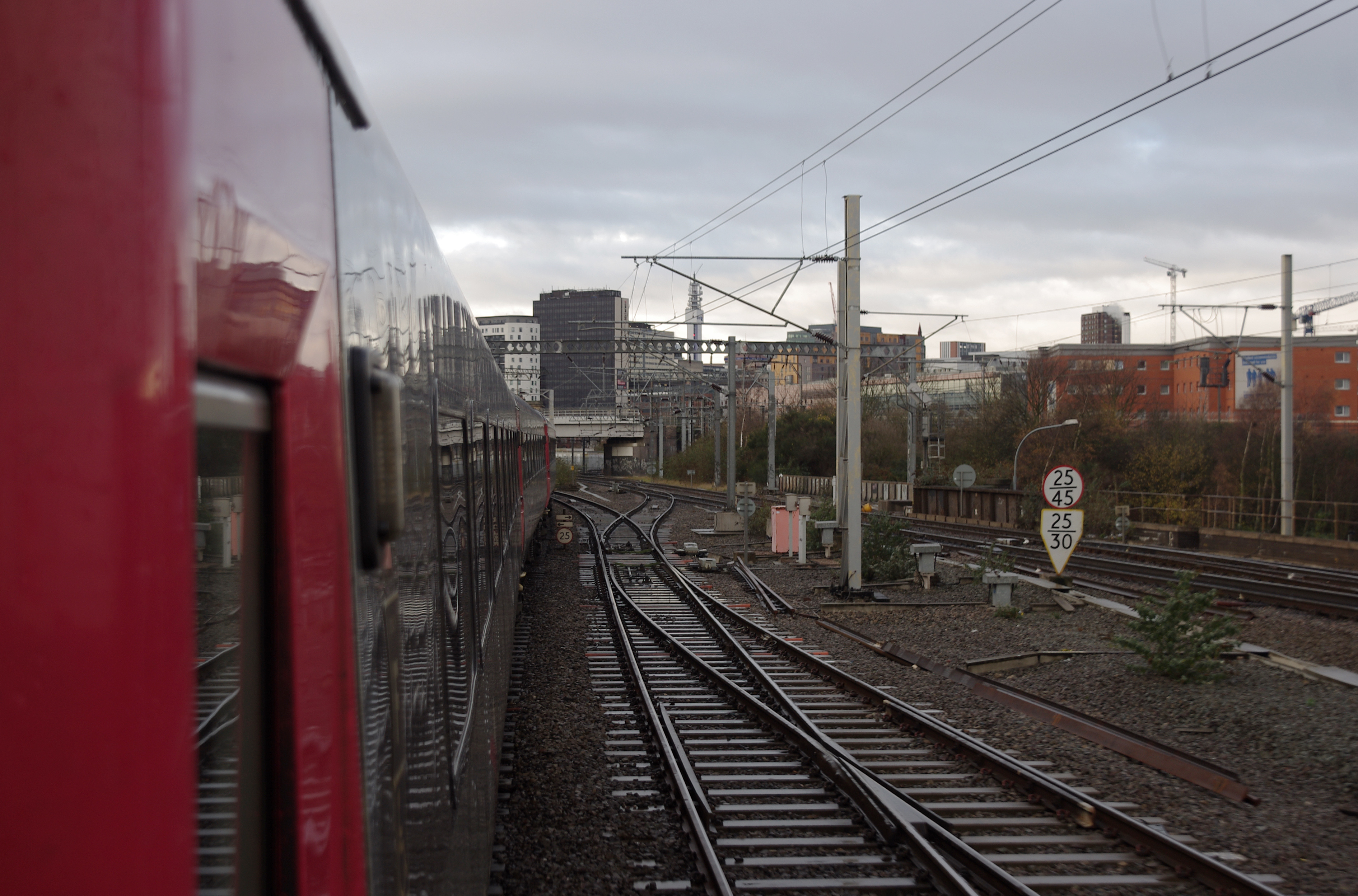 A southbound CrossCountry HST set passes Grand Junction in Birmingham.